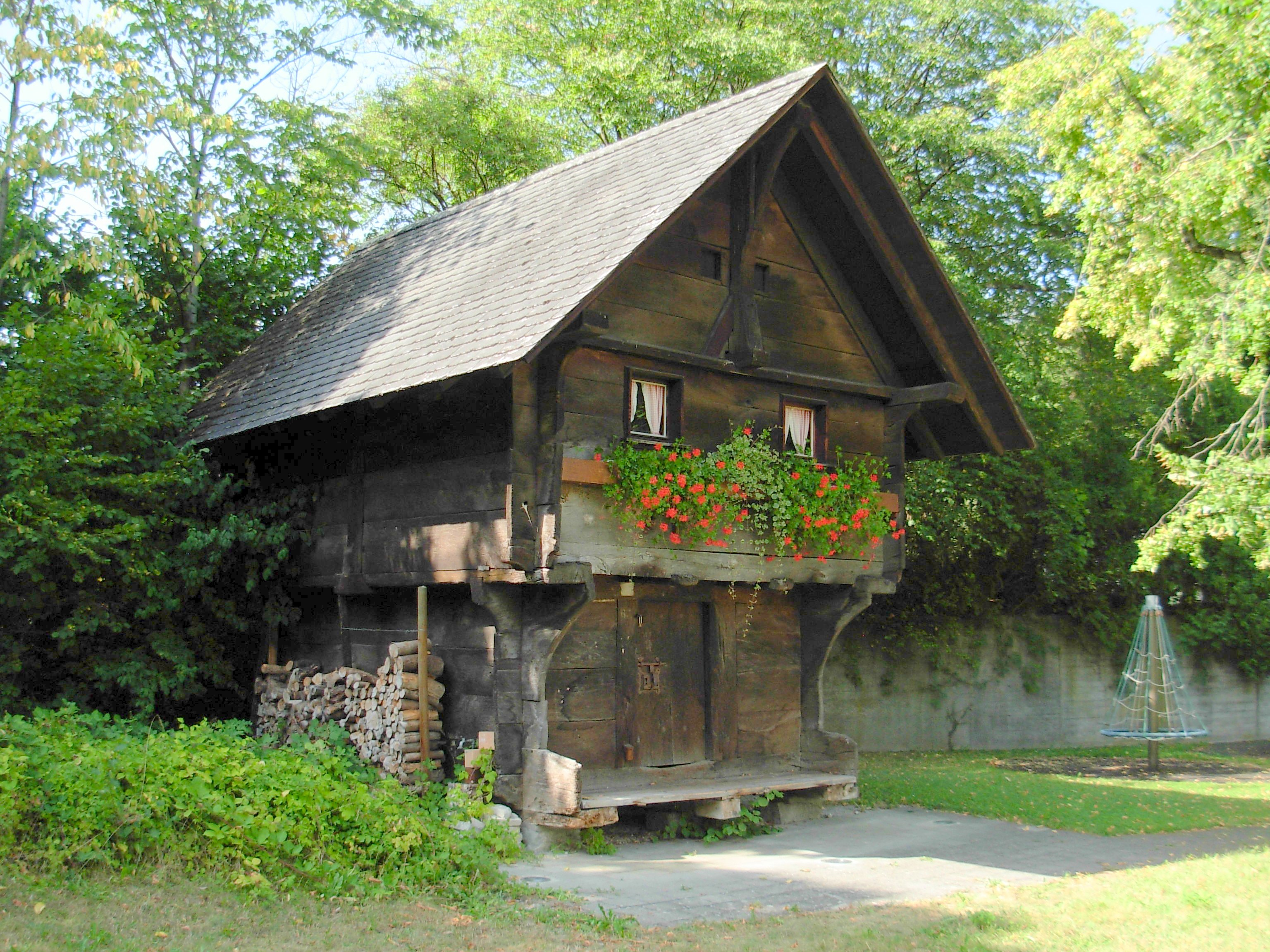 Magazine house of 1548 in Liebefeld, Canton of Bern, Switzerland